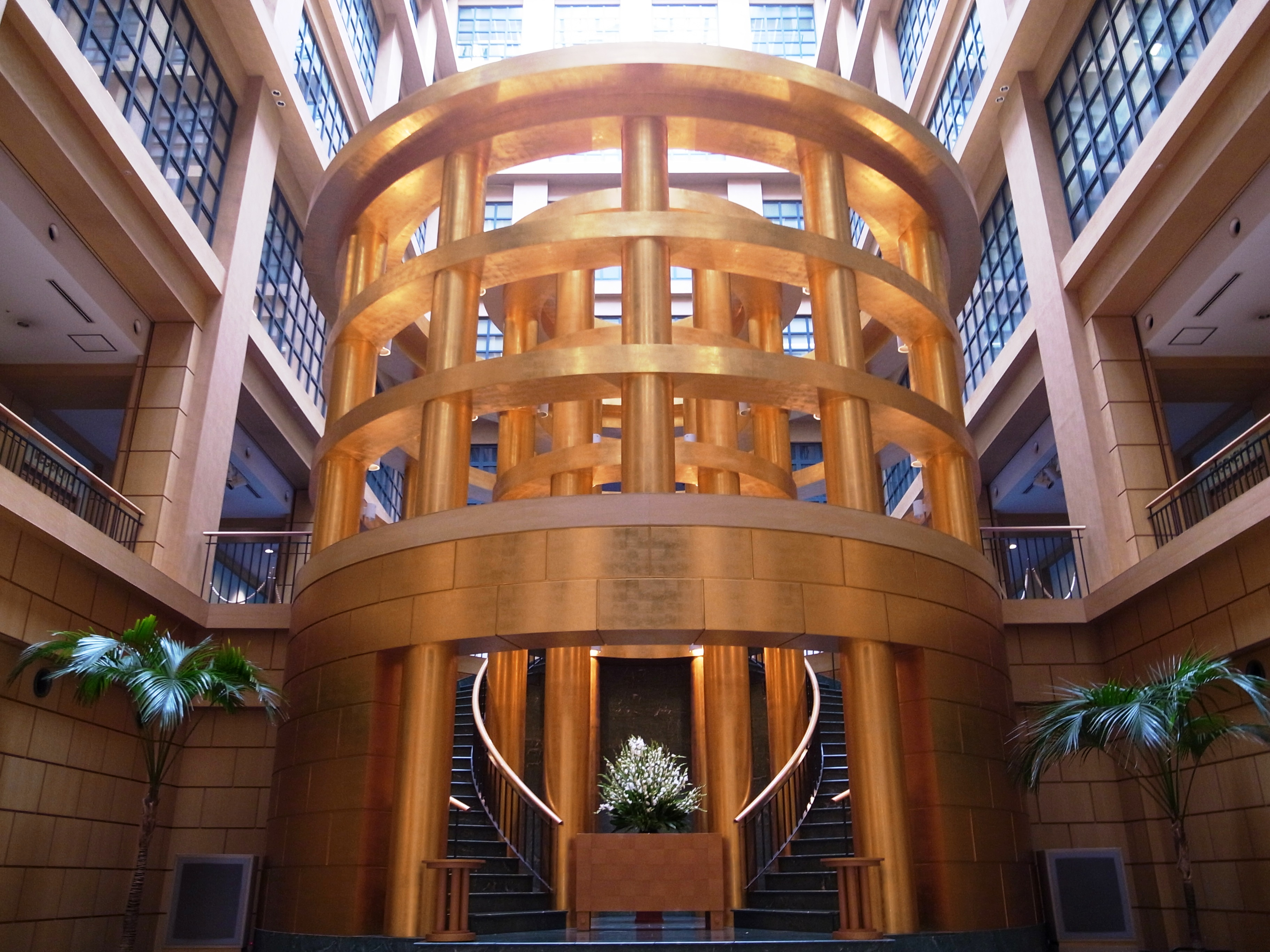 Hyatt Regency Fukuoka